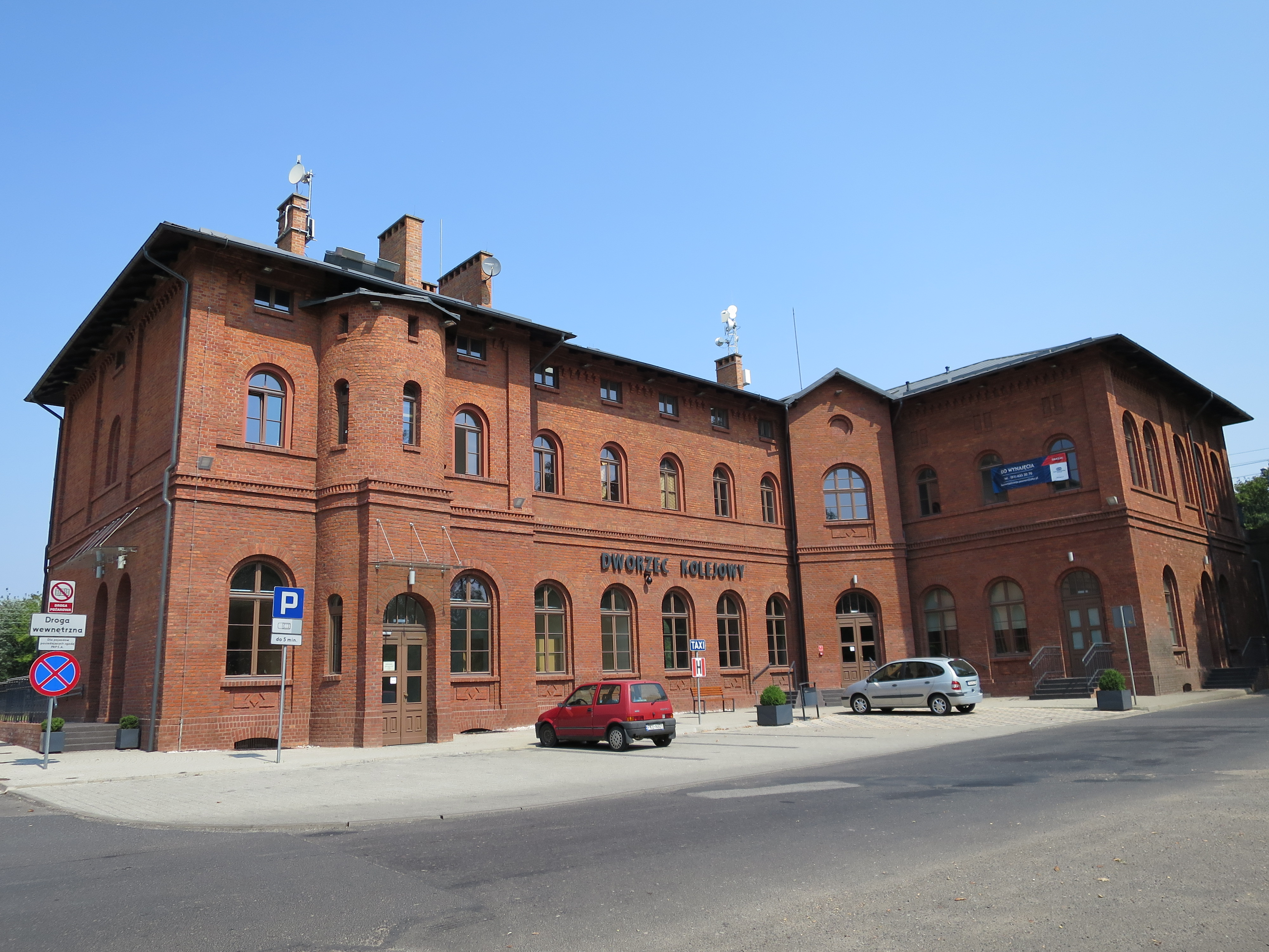 Dworec kolejowy w Kępnie This photo was taken during Railway Wikiexpedition 2015 set up by Wikimedia Polska Association in cooperation with Fundacja Grupy PKP. You can see all photographs in category Wikiekspedycja kolejowa 2015.